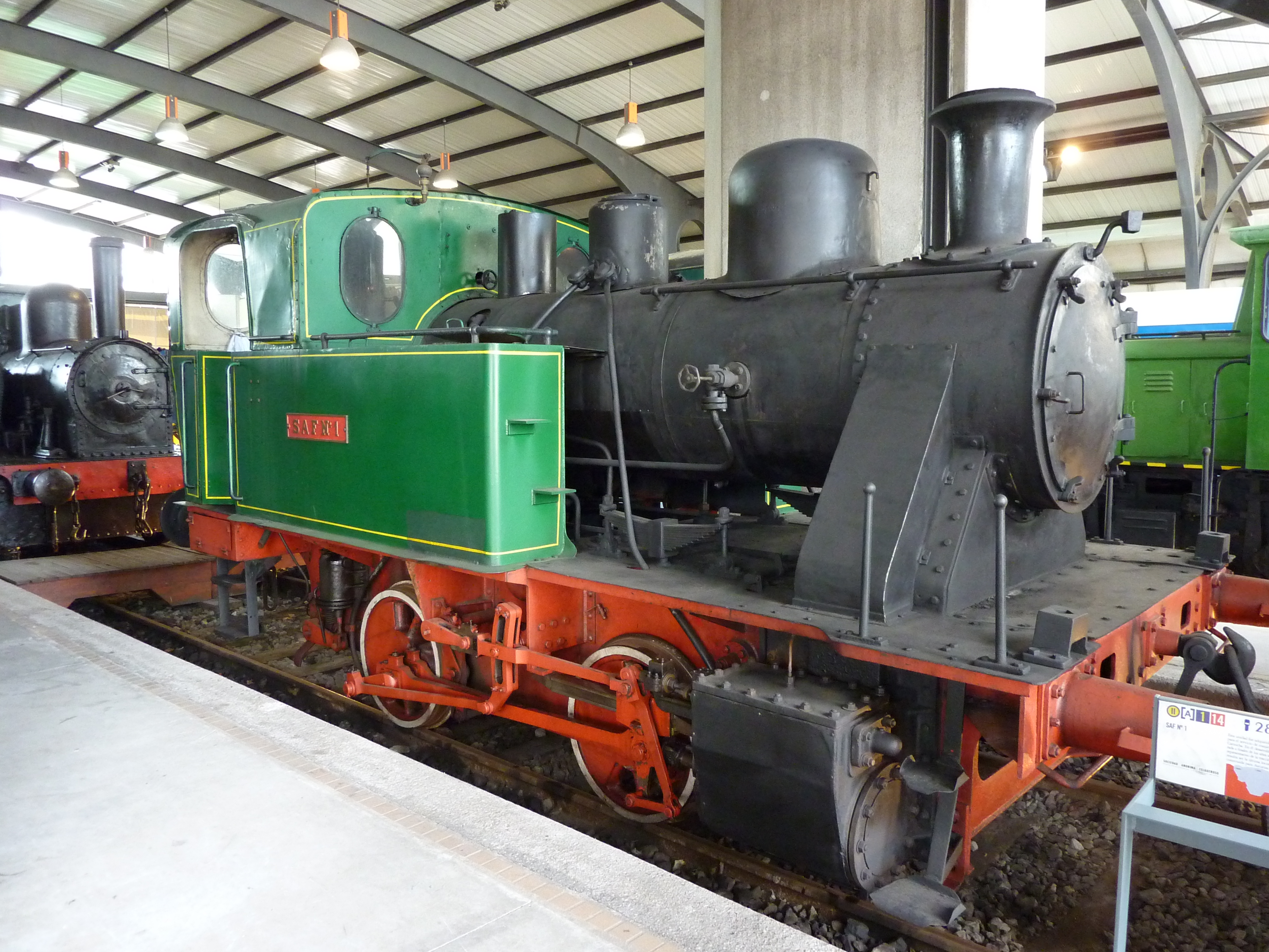 Steam locomotive SAF 1, in Asturian Railway Museum, Gijón, Asturias, Spain